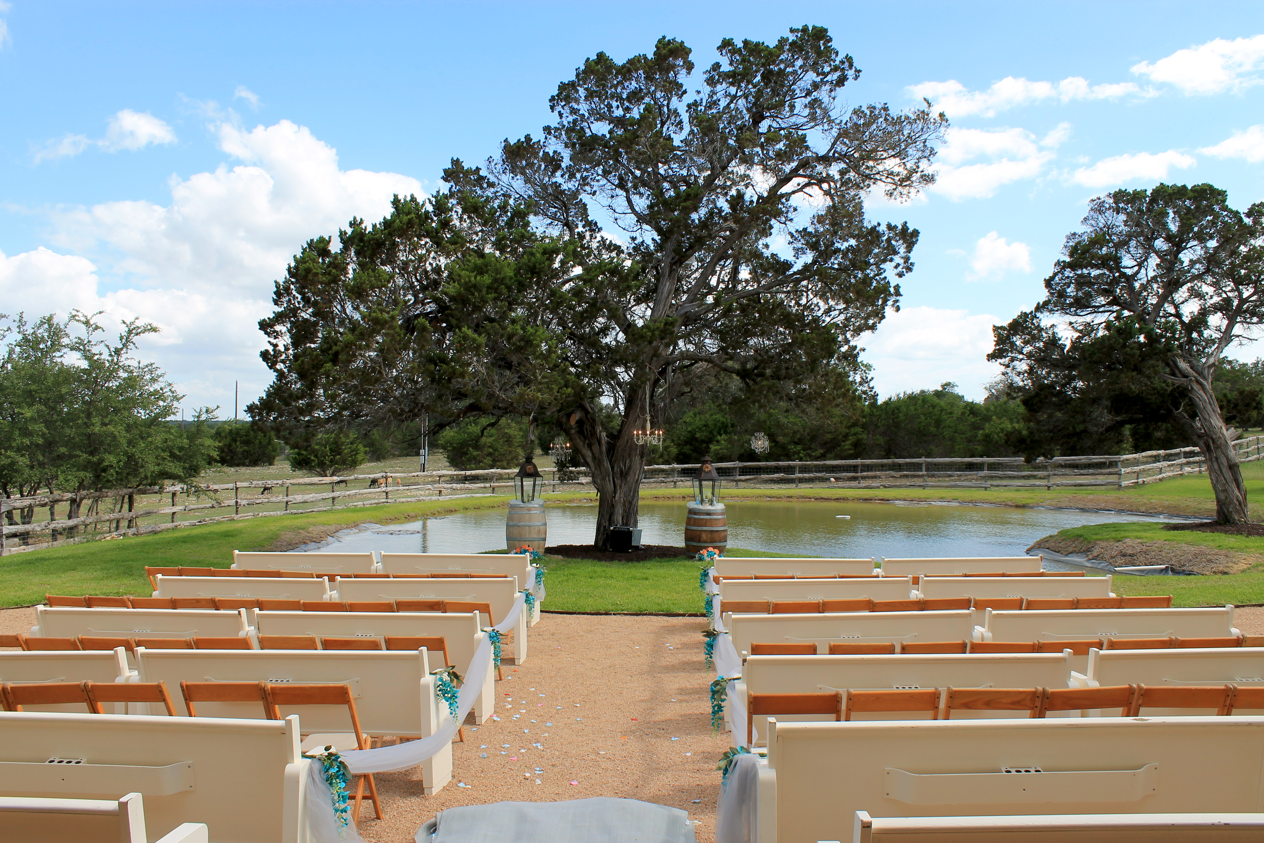 Wedding preparations at Twisted Ranch in Oatmeal, Texas.